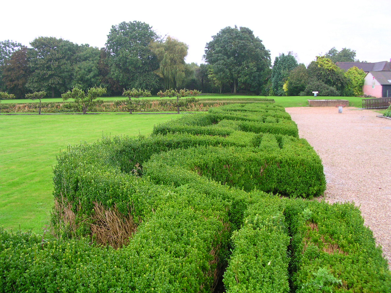 Box hedges in the garden of Fishbourne Roman Palace, West Sussex, England.